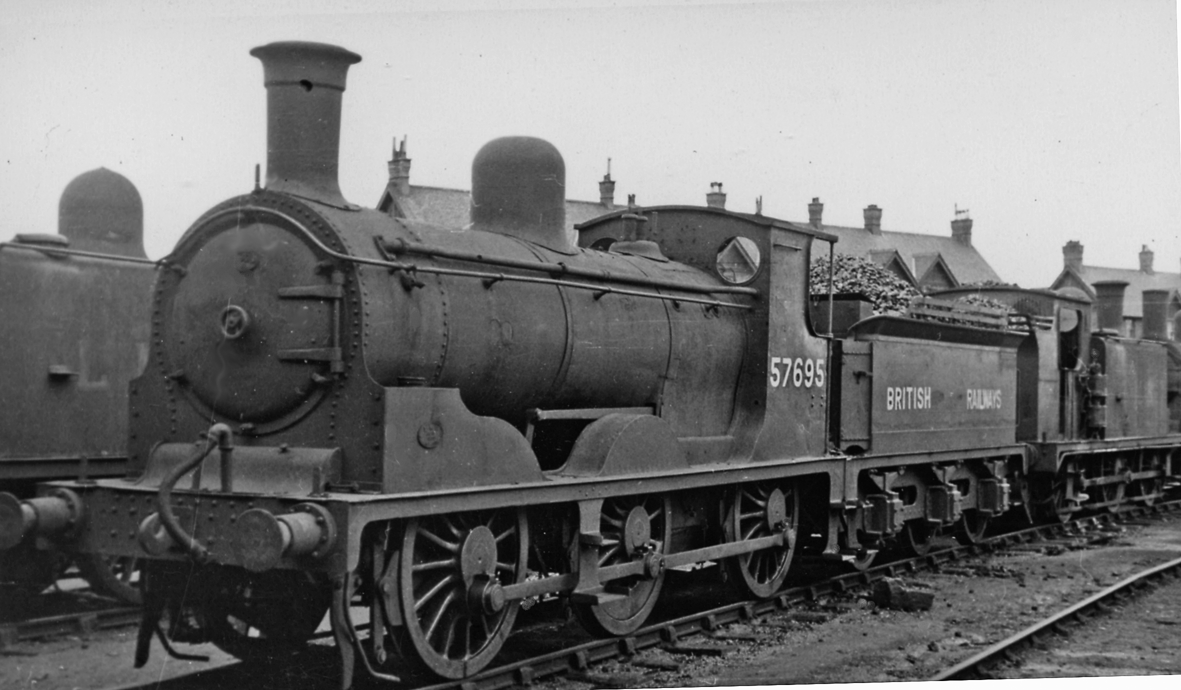 Ex-Highland Railway 0-6-0 at Corkerhill Locomotive Depot, Glasgow. No. 57695 is a P. Drummond Highland Railway 3F 0-6-0, built c. 1900 and withdrawn 1/52. Few Highland locomotives survived into Nationalisation. (See also NS5462 : Ex-Caledonian '812' class 0-6-0 Corkerhill Locomotive Depot).